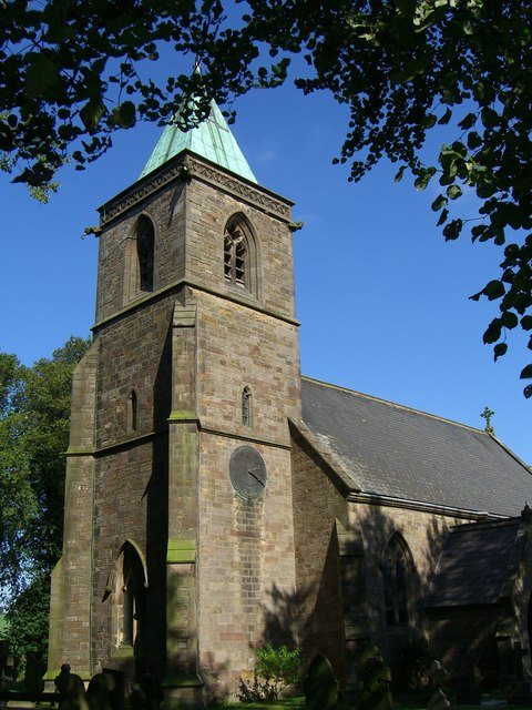 St Luke's parish church, Sheen, Staffordshire, seen from the southwest